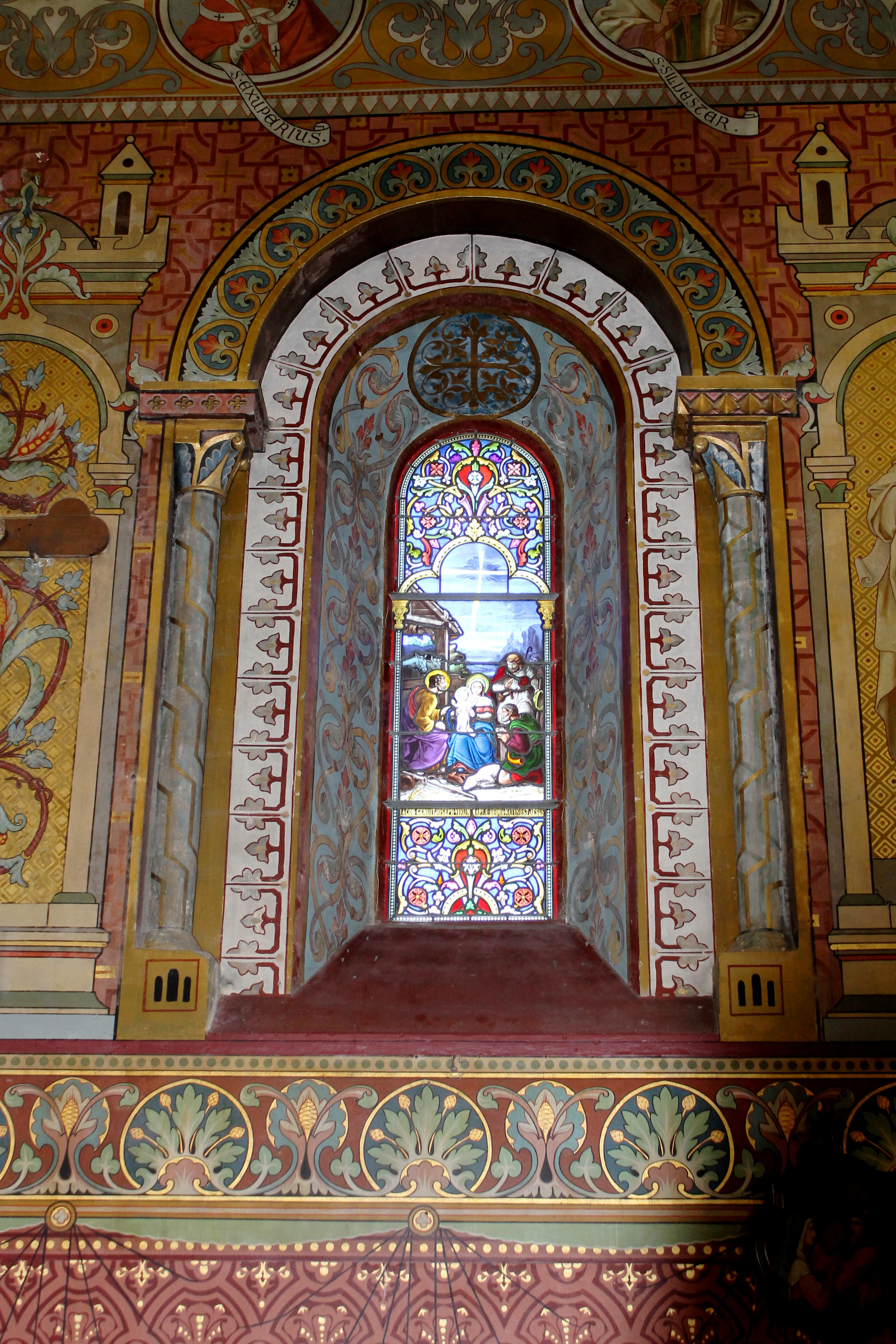 1889 Stained glass window Jacob genuit Joseph virum Mariae dequa Natus est Jesus (Jacob was the father of Joseph the husband of Mary, Jesus was born of the matter), bay 1 by Lorin Studio from Chartres, Notre-Dame-de-l'Assomption church, Mathieu, Calvados (France).